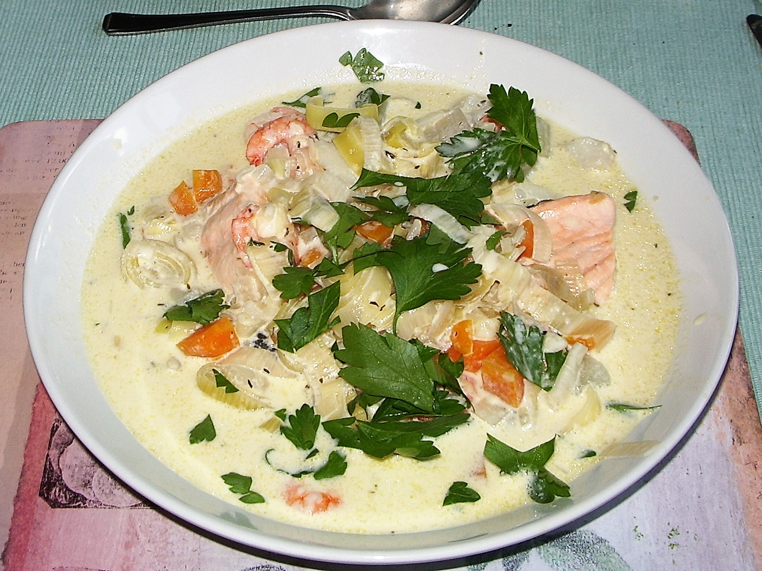 Flemish fish stew. Made with salmon and cod and prawns. Plus spuds, carrots and leeks. plus cream. Flemish cookery.